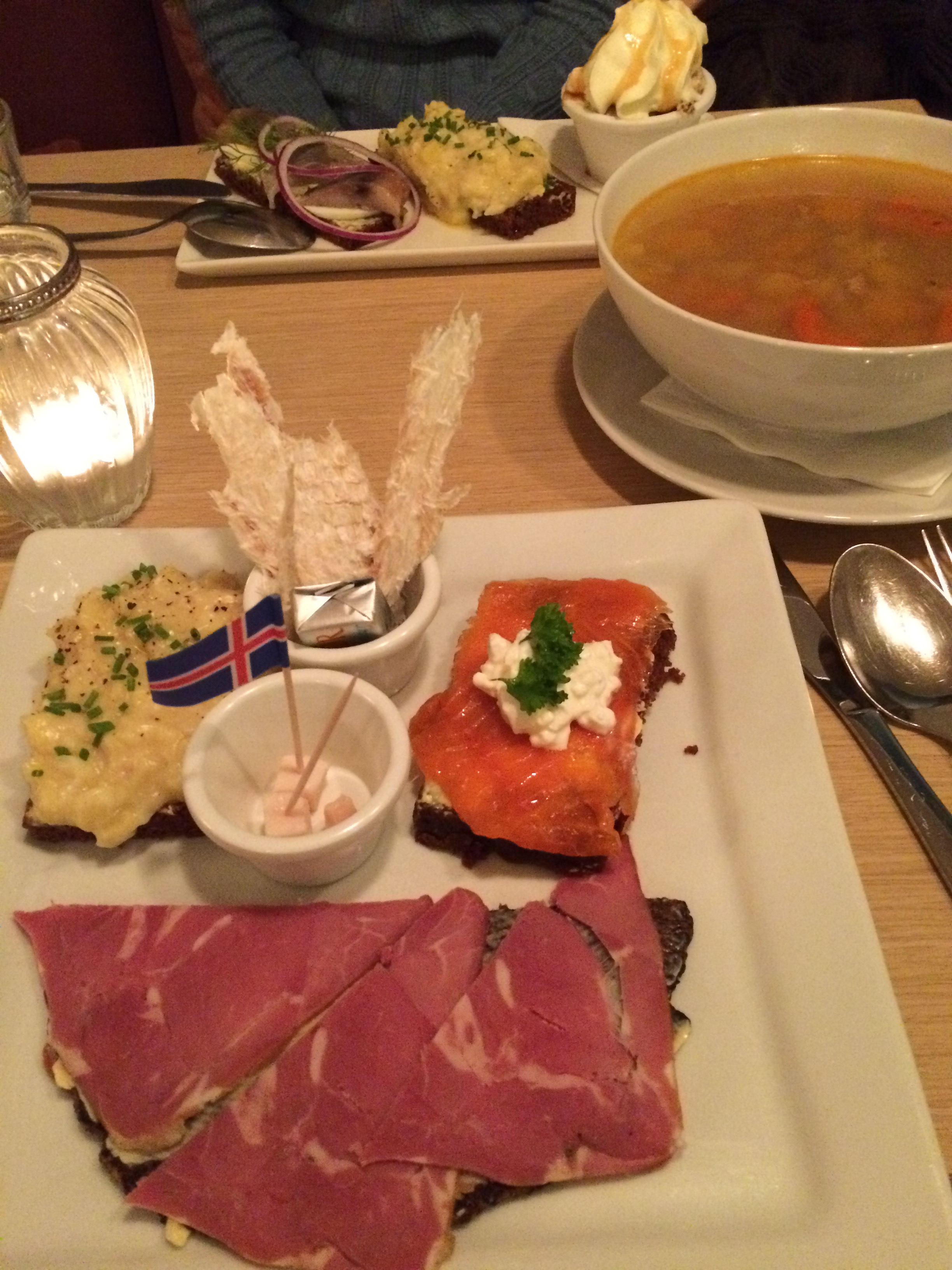 Hákarl (fermented shark) at Café Loki